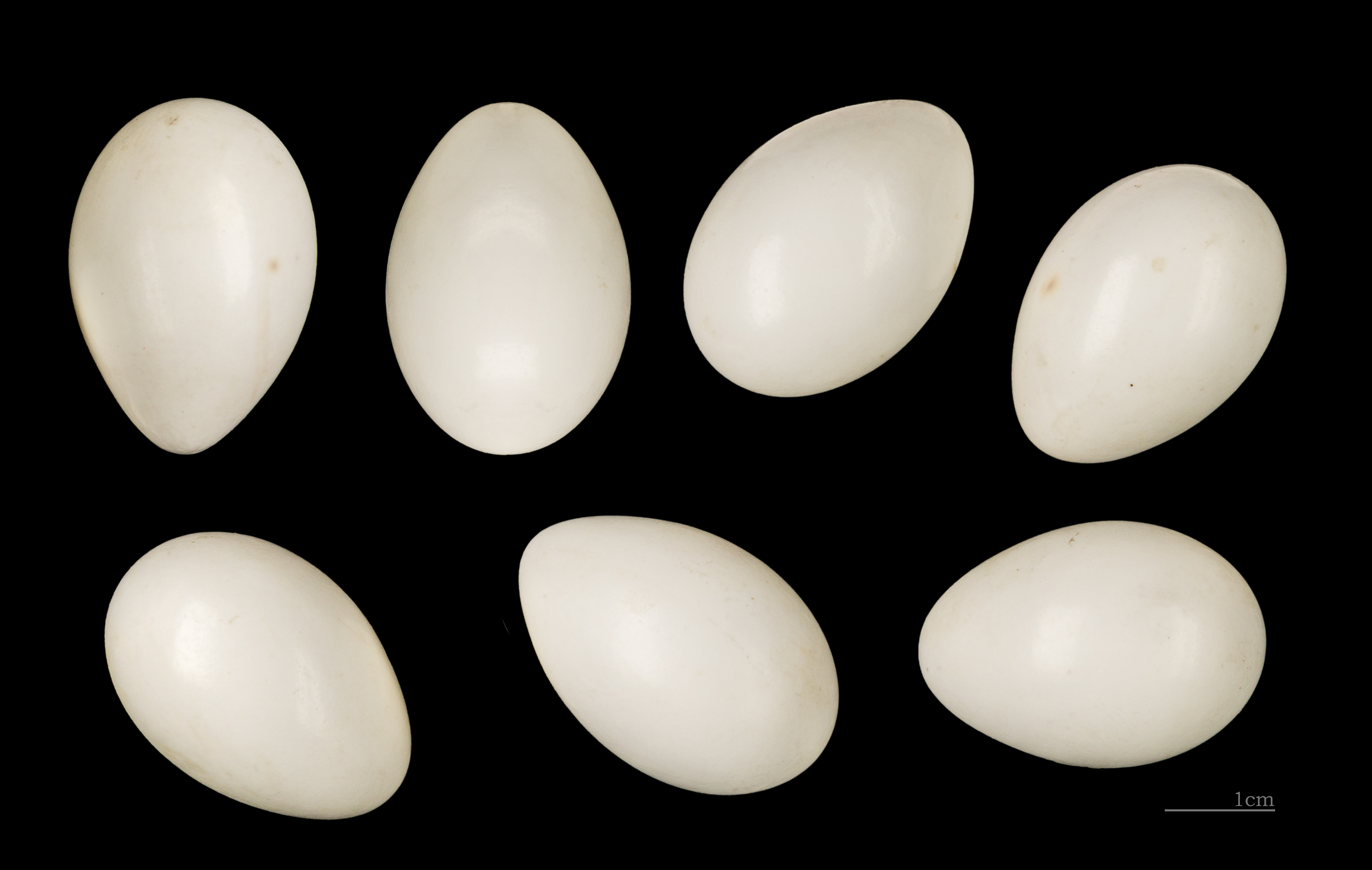 Eggs of European Green Woodpecker. Collection of Henri Heim de Balsac/Jacques Perrin de Brichambaut.